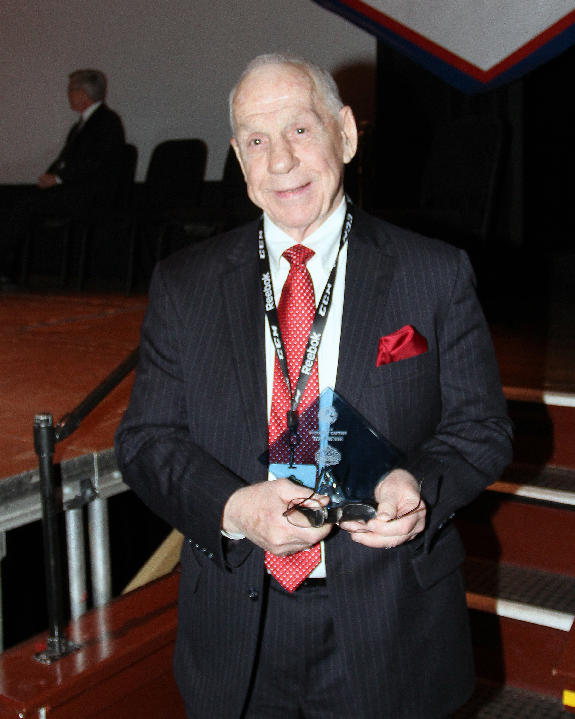 Alan Sullivan - Photographer American Hockey League (AHL). 2013 AHL Hall of Fame Ceremony. Taken on January 28, 2013.